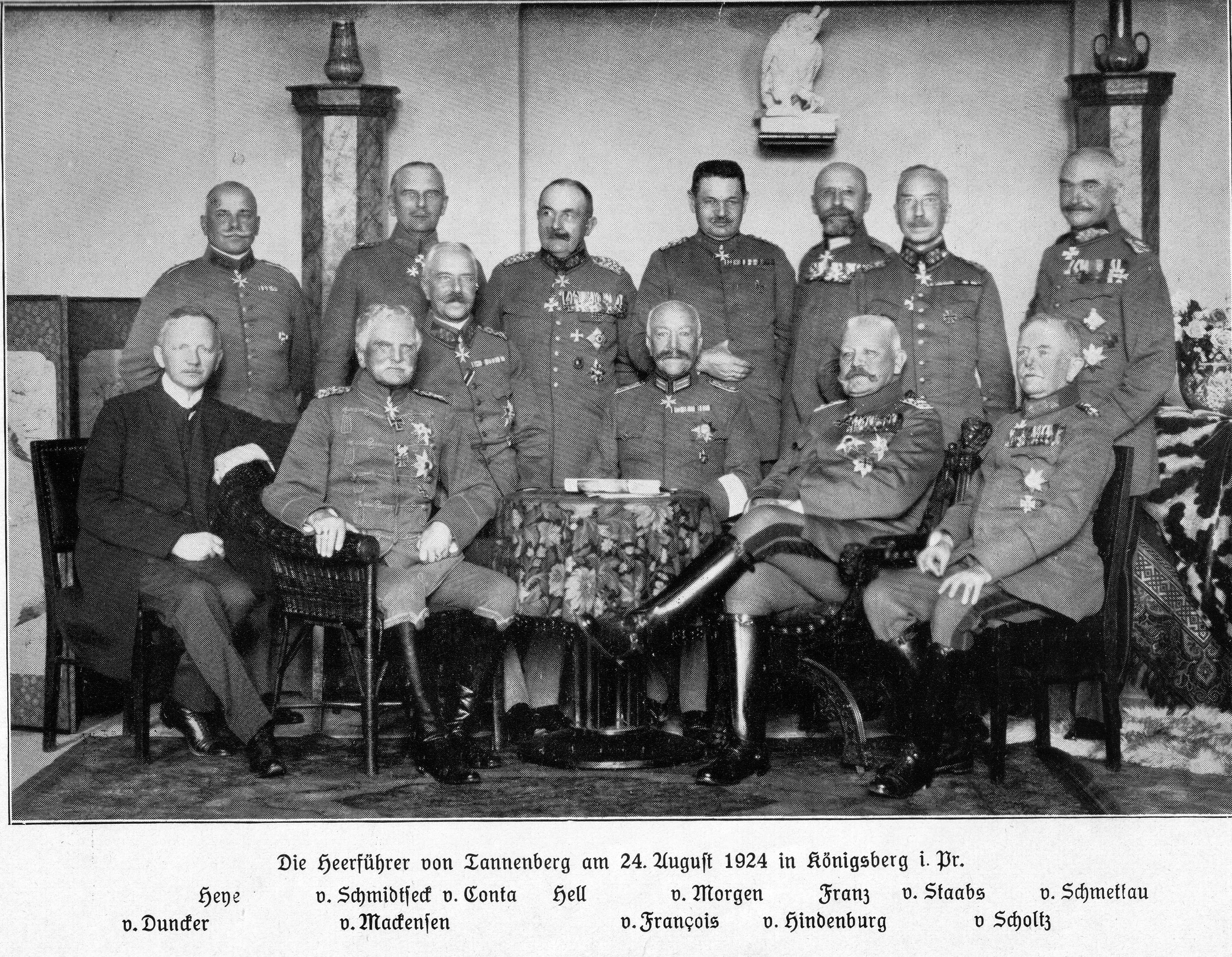 German generals of the Battle of Tannenberg, 10th anniversary celebration in Kaliningrad